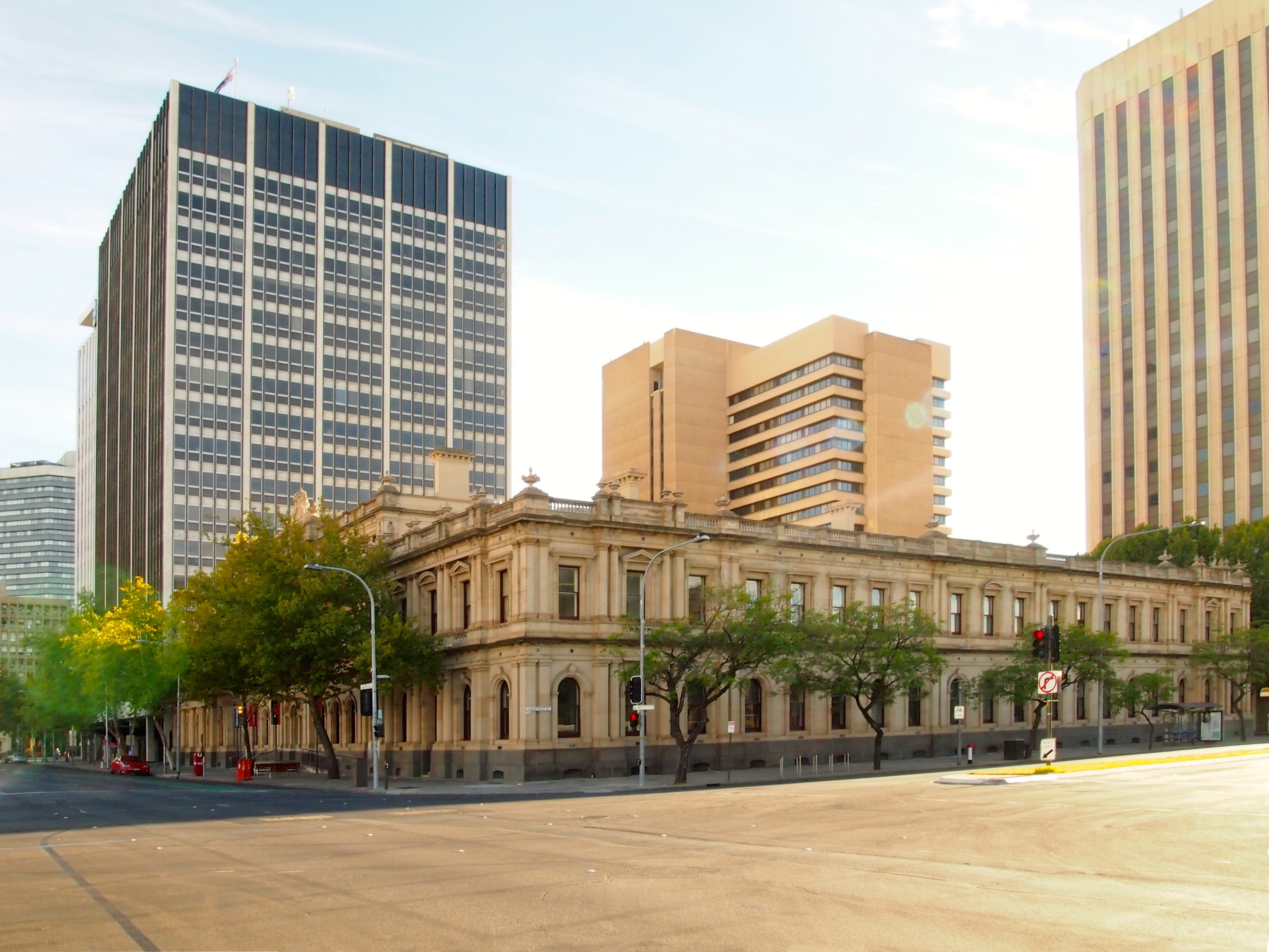 Torrens Building, Wakefield St, Adelaide Original filename = P3155371.JPG